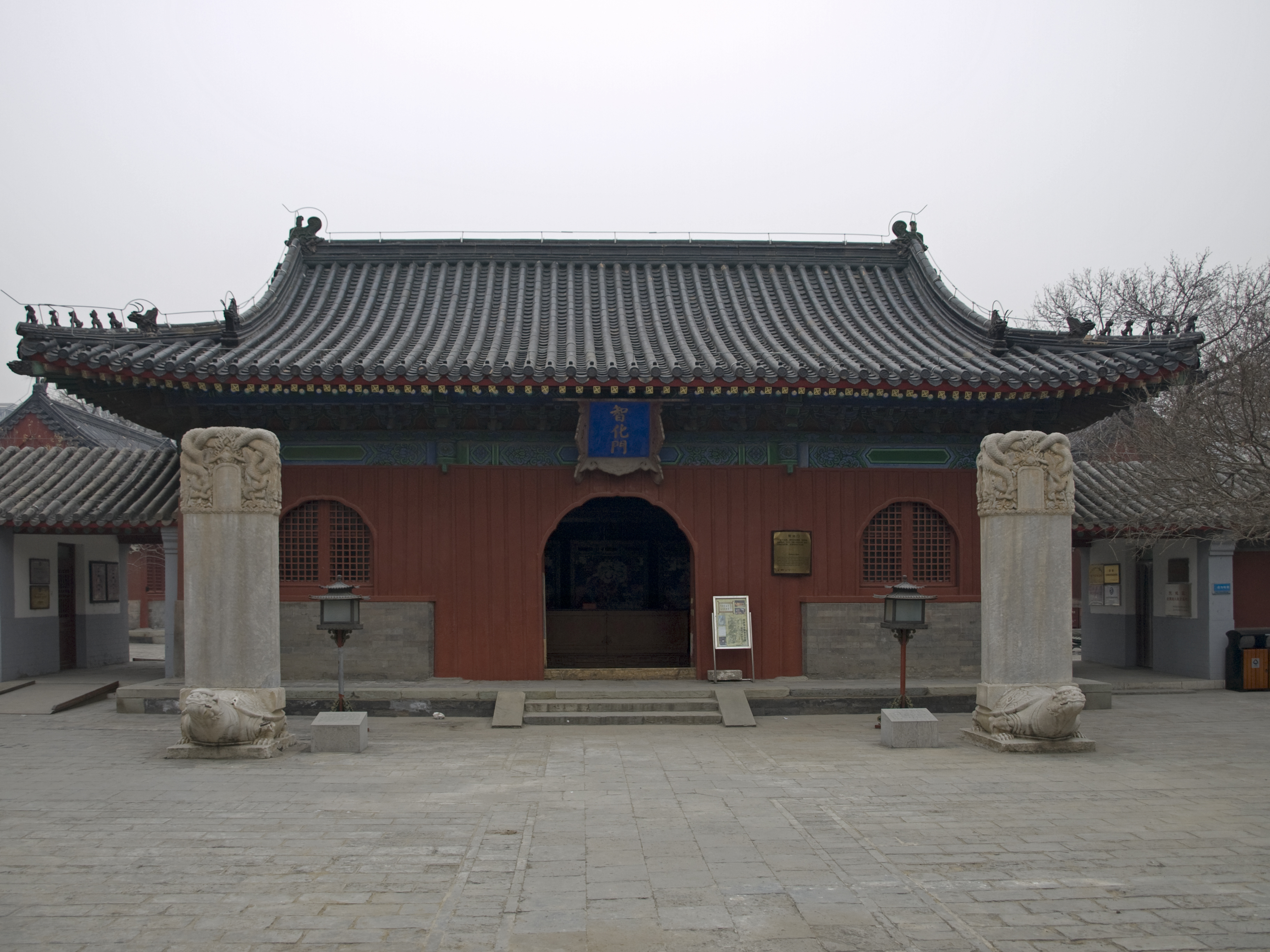 Zhihua Temple, First Hall